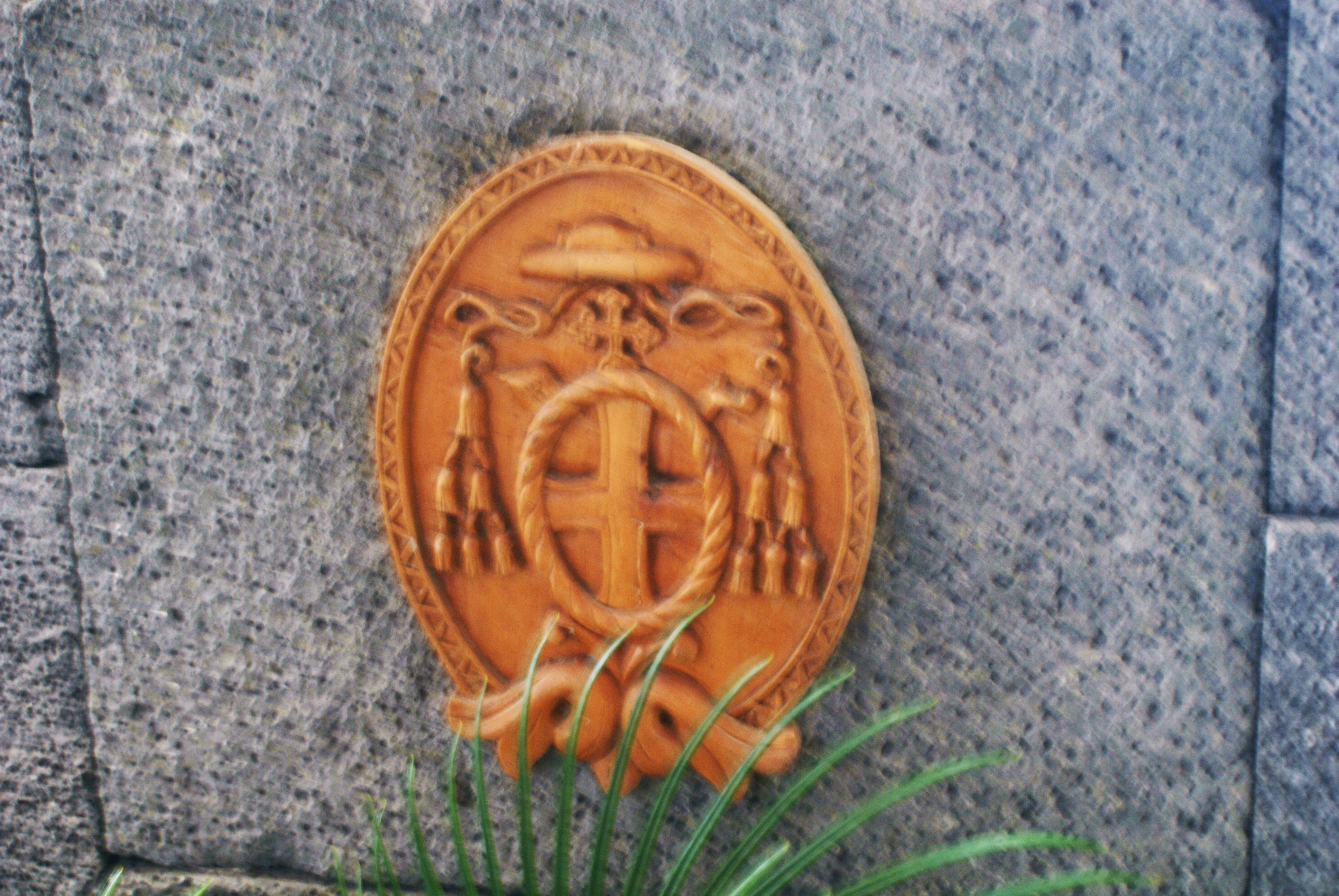 D. José da Costa Nunes, brasão de armas existente no túmulo existente na Igreja de Nossa Senhora da Candelária, concelho da Madalena do Pico, ilha do Pico, Açores, Portugal